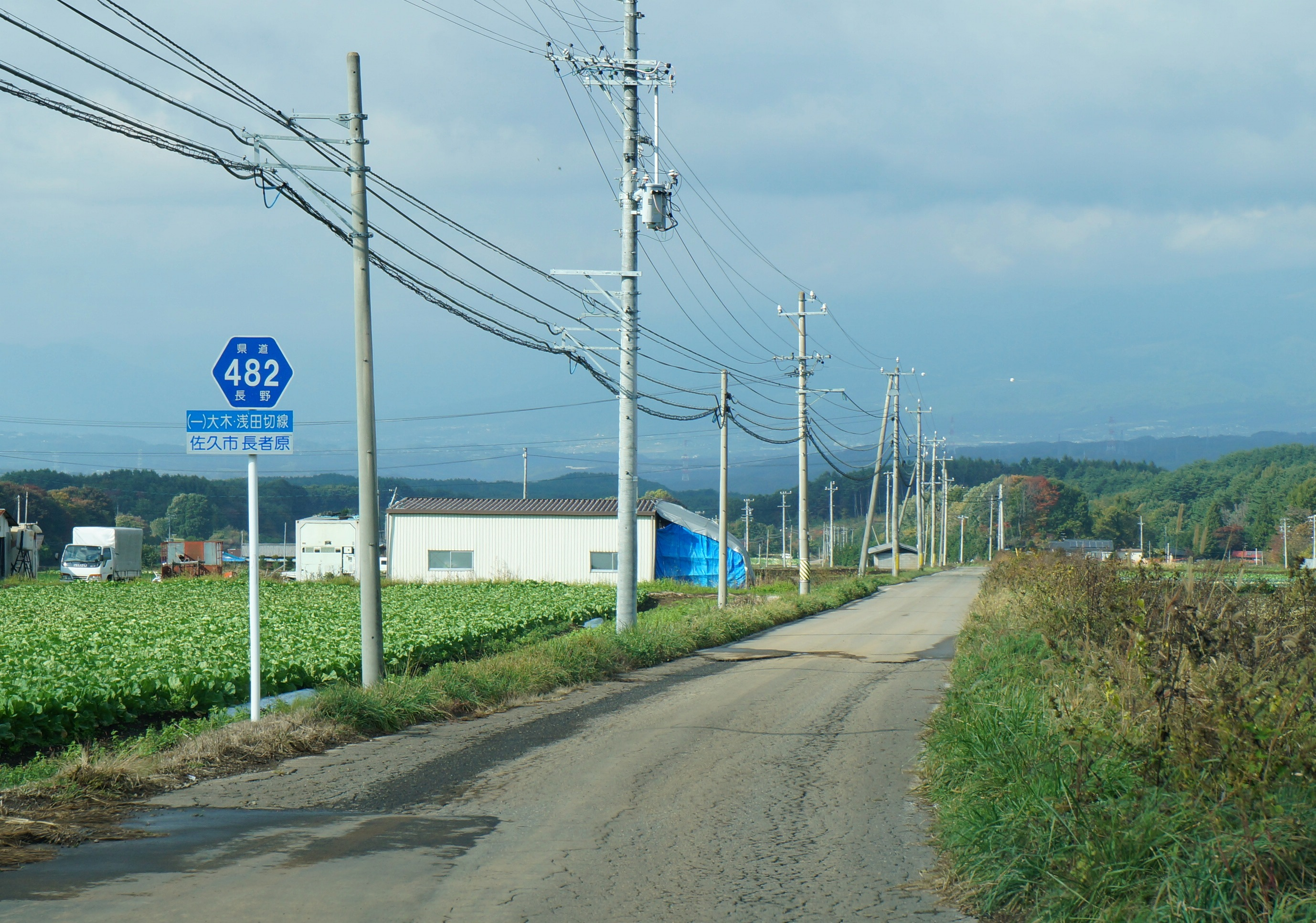 Nagano prefectural road 482 (Ooki-Asadagiri line) in Chōjahara, Saku, Nagano, Japan.